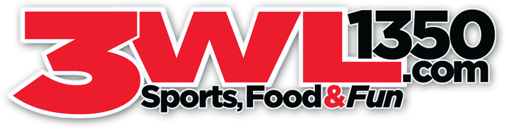 The current logo of New Orleans, Louisiana radio station WWWL, copied from their website.